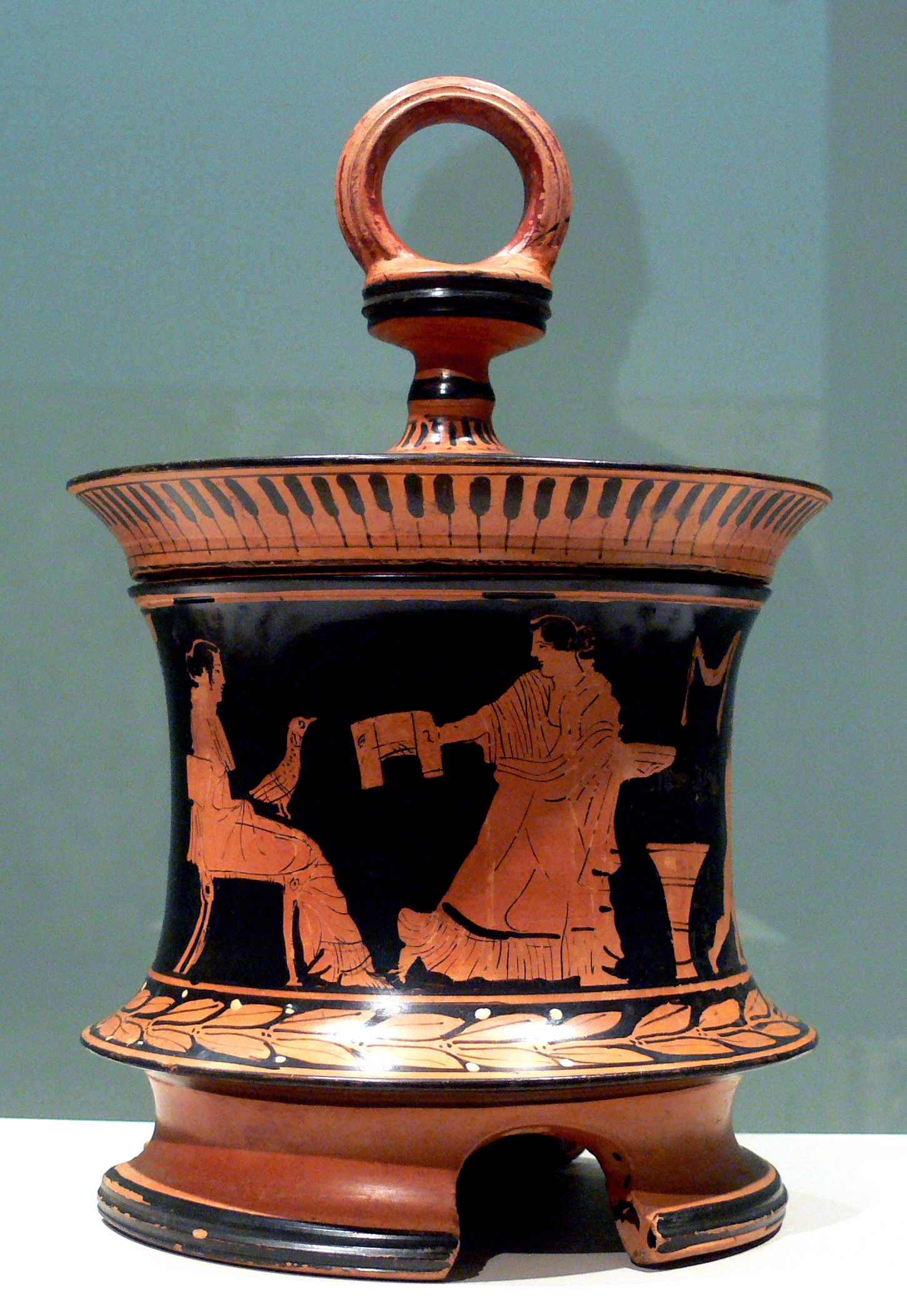 Red-figure pyxis and lid; last half of 5th century B.C.; by the „Aberdeen Painter“; height 23.8 cm; diameter 15.9 cm; Dallas Museum of Art, Dallas, Texas; gift of the Junior League of Dallas; object number 1968.28.A-B